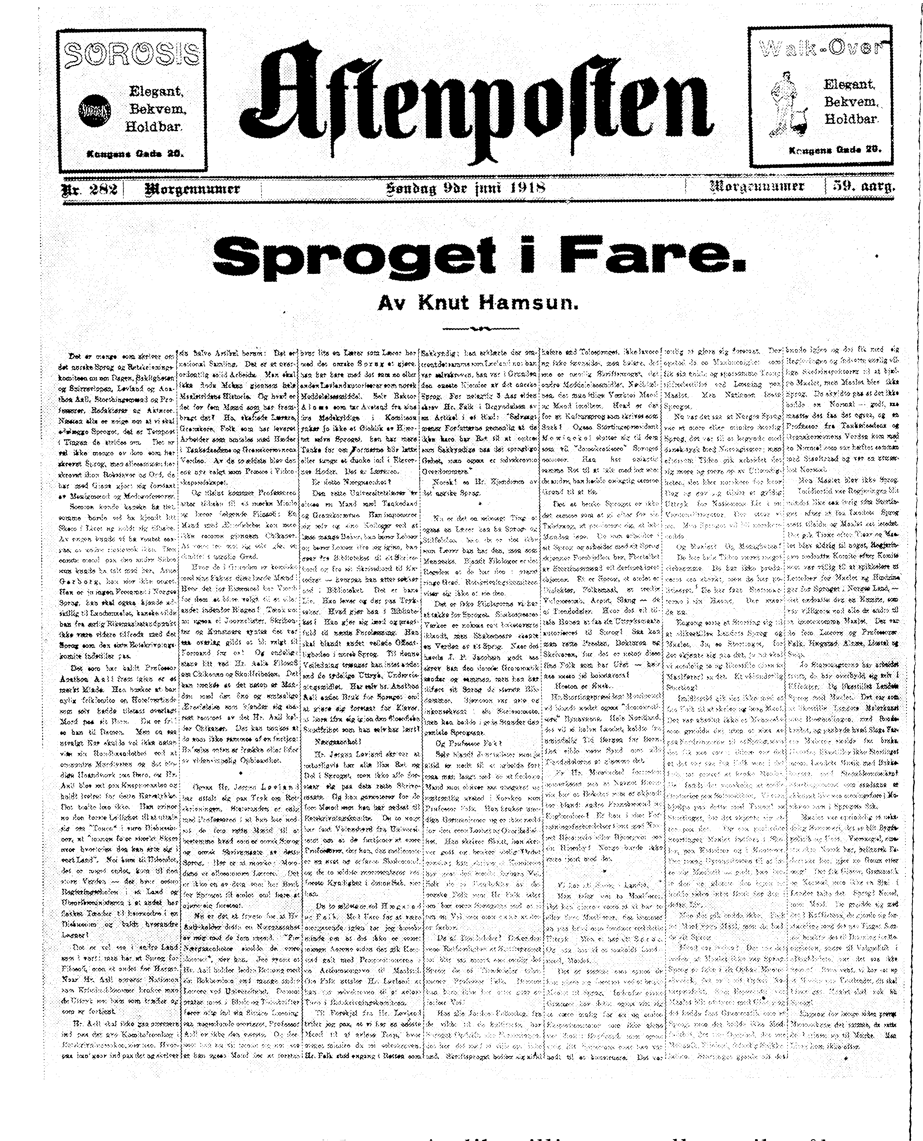 Front page of the newspaper Aftenposten in 1918 solely dedicated to Knut Hamsun's article in defense of Riksmål.